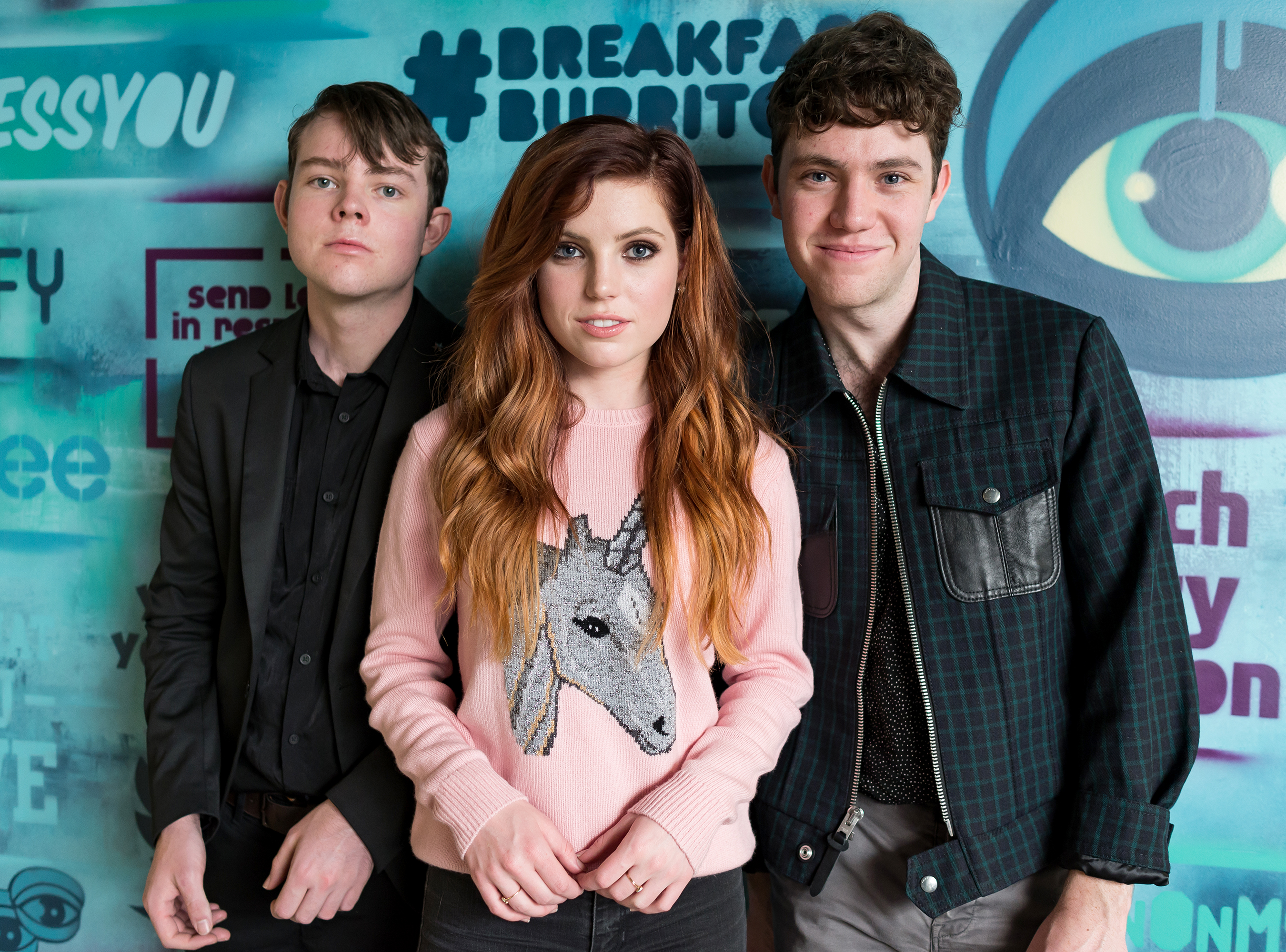 Echosmith performing live at the Twitter LA offices in Santa Monica, Los Angeles, California, on Wednesday, November 15, 2017.